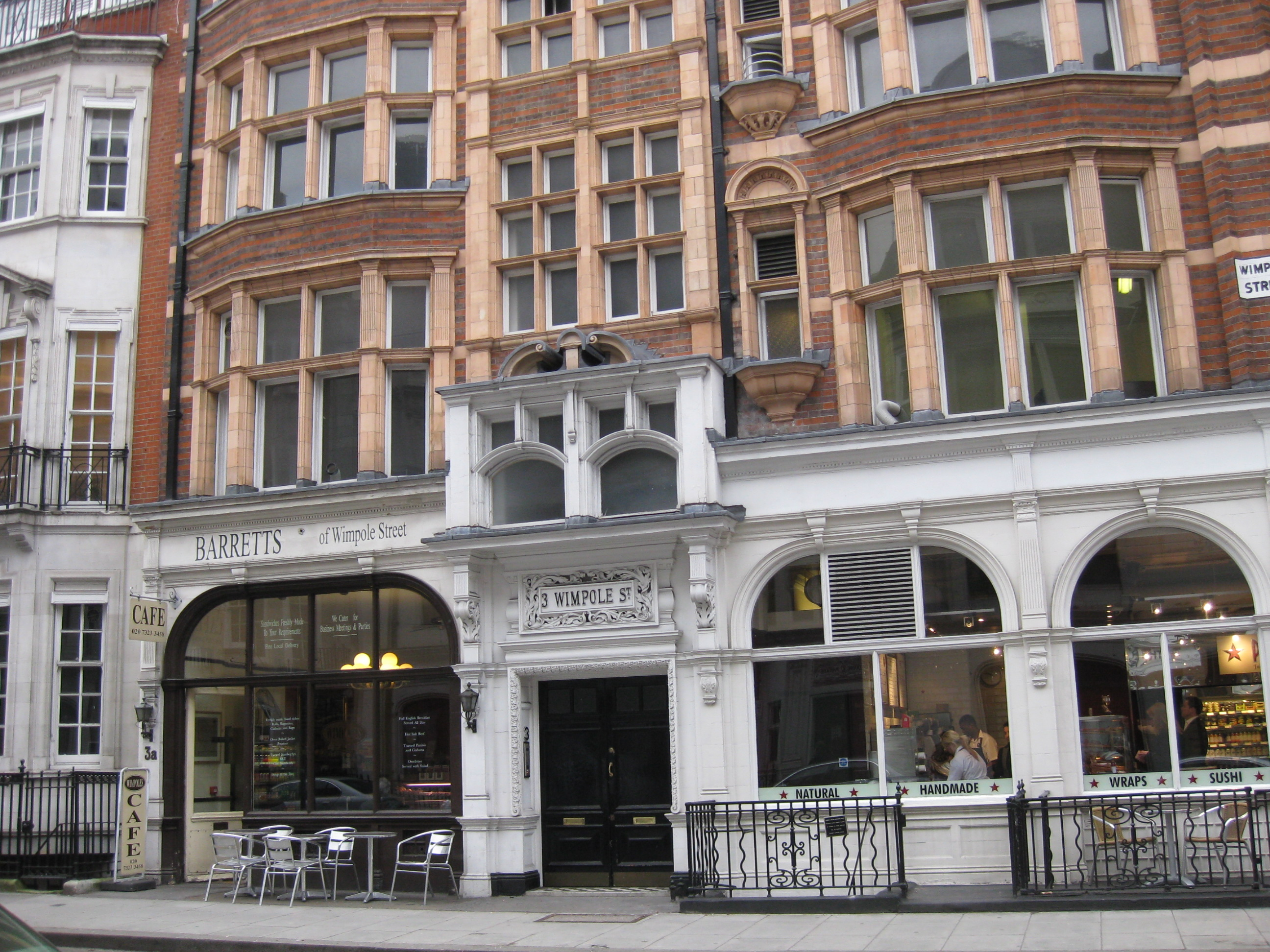 Number 3, Wimpole Street, Westminster, London W1G 9SF